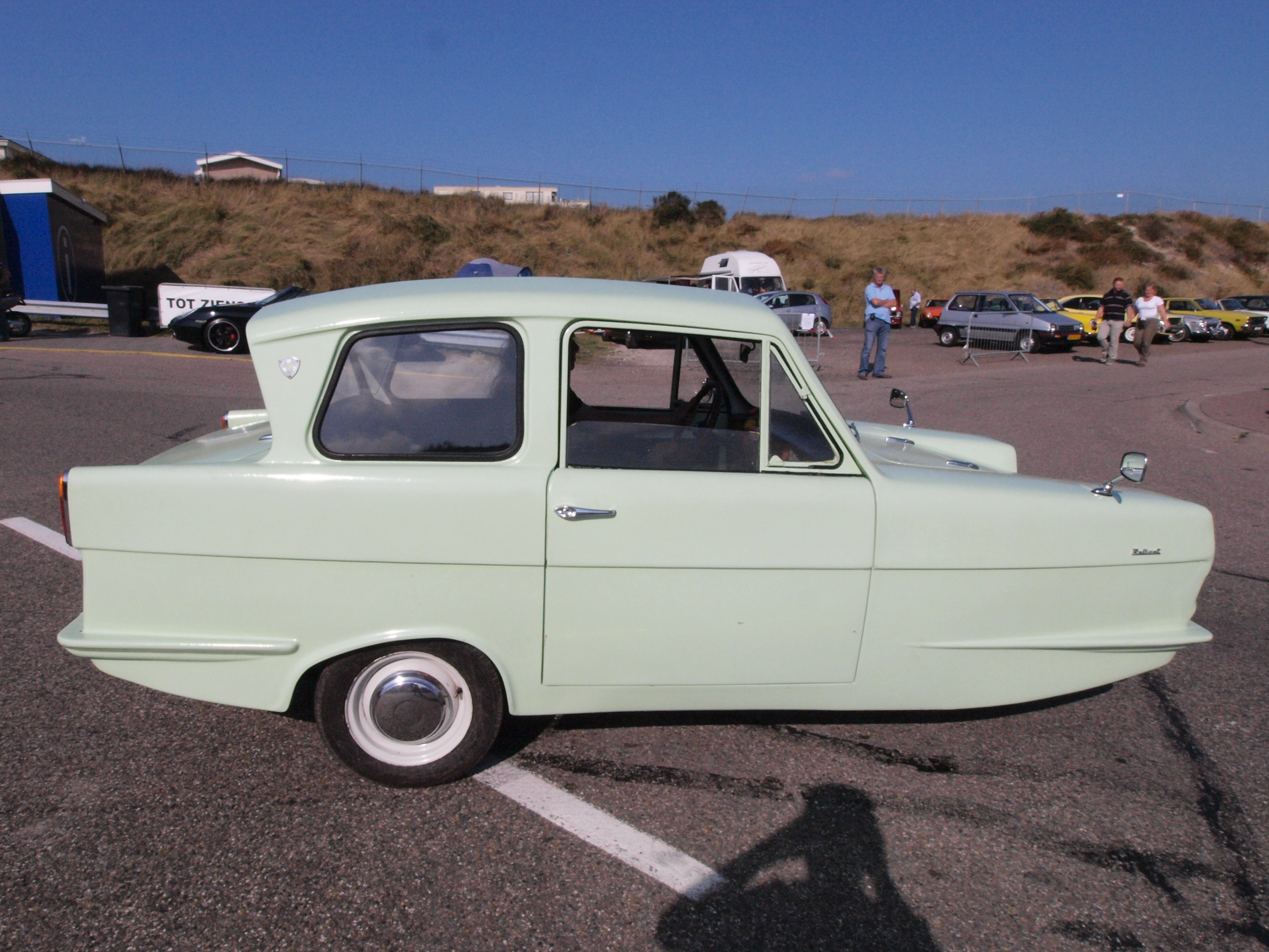 Photographed at the Nationaal Oldtimer Festival Zandvoort 2009, The Netherlands. OLYMPUS DIGITAL CAMERA